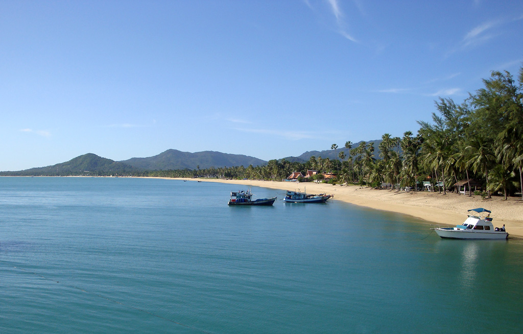 Maenam Beach, Koh Samui, Thailand